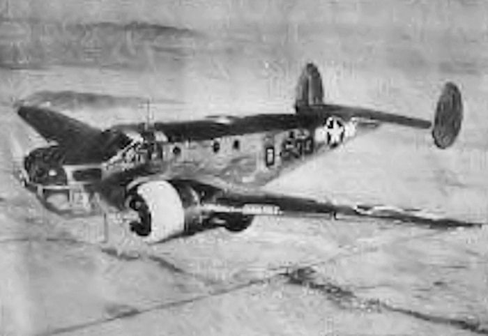 Douglas Army Airfield Beech C-45 Expeditor - 1944